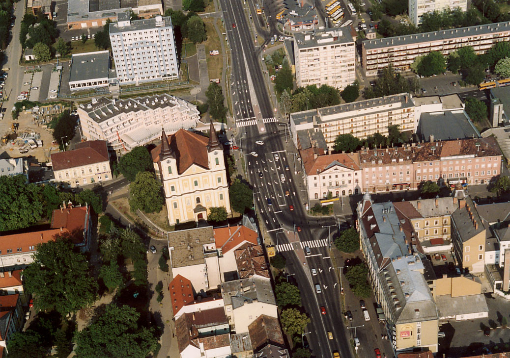 Temple - Zalaegerszeg - Hungary - Europe